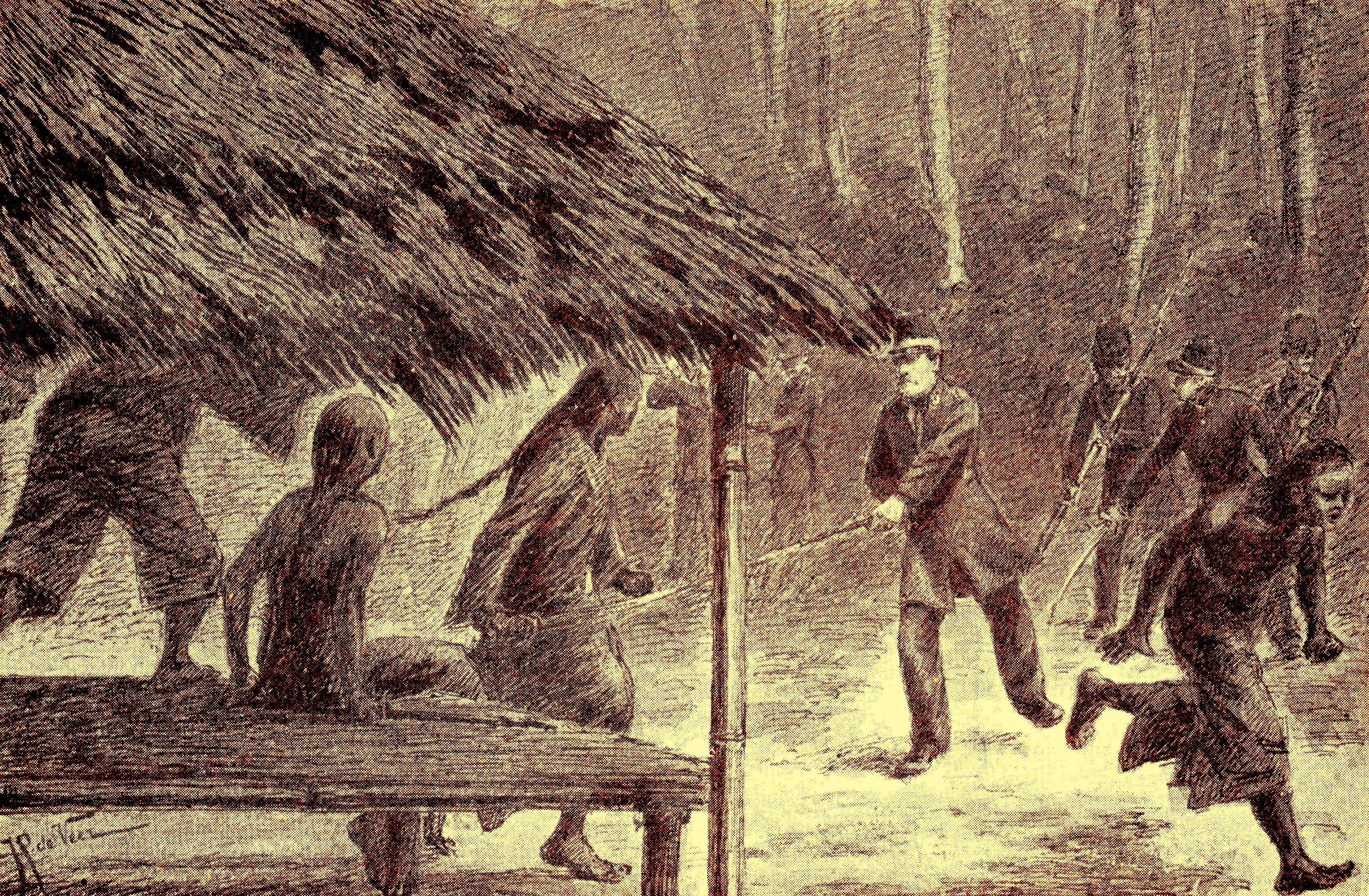 De overvalling der Sam-tjam-foei